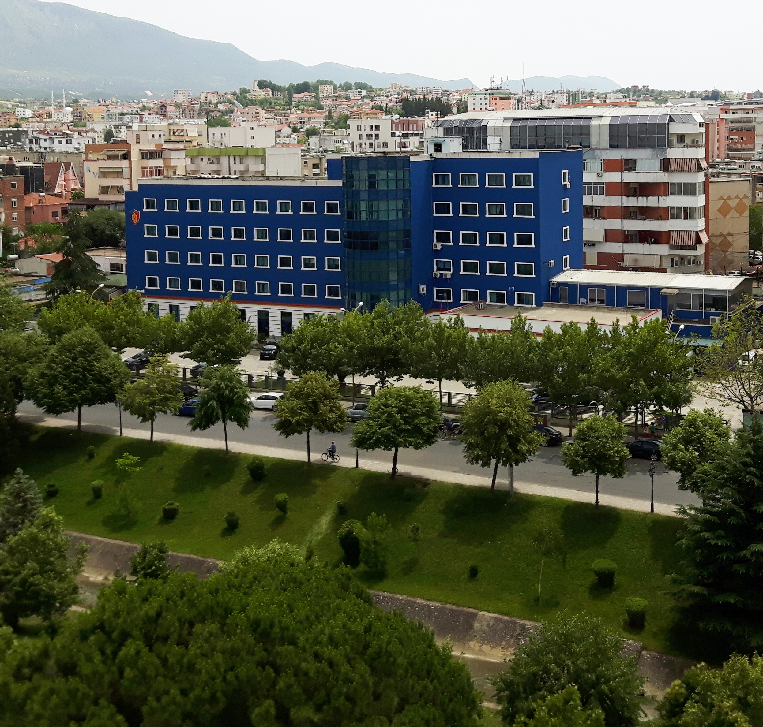 Headquarters of the Albanian State Police in the capital city Tiranë.